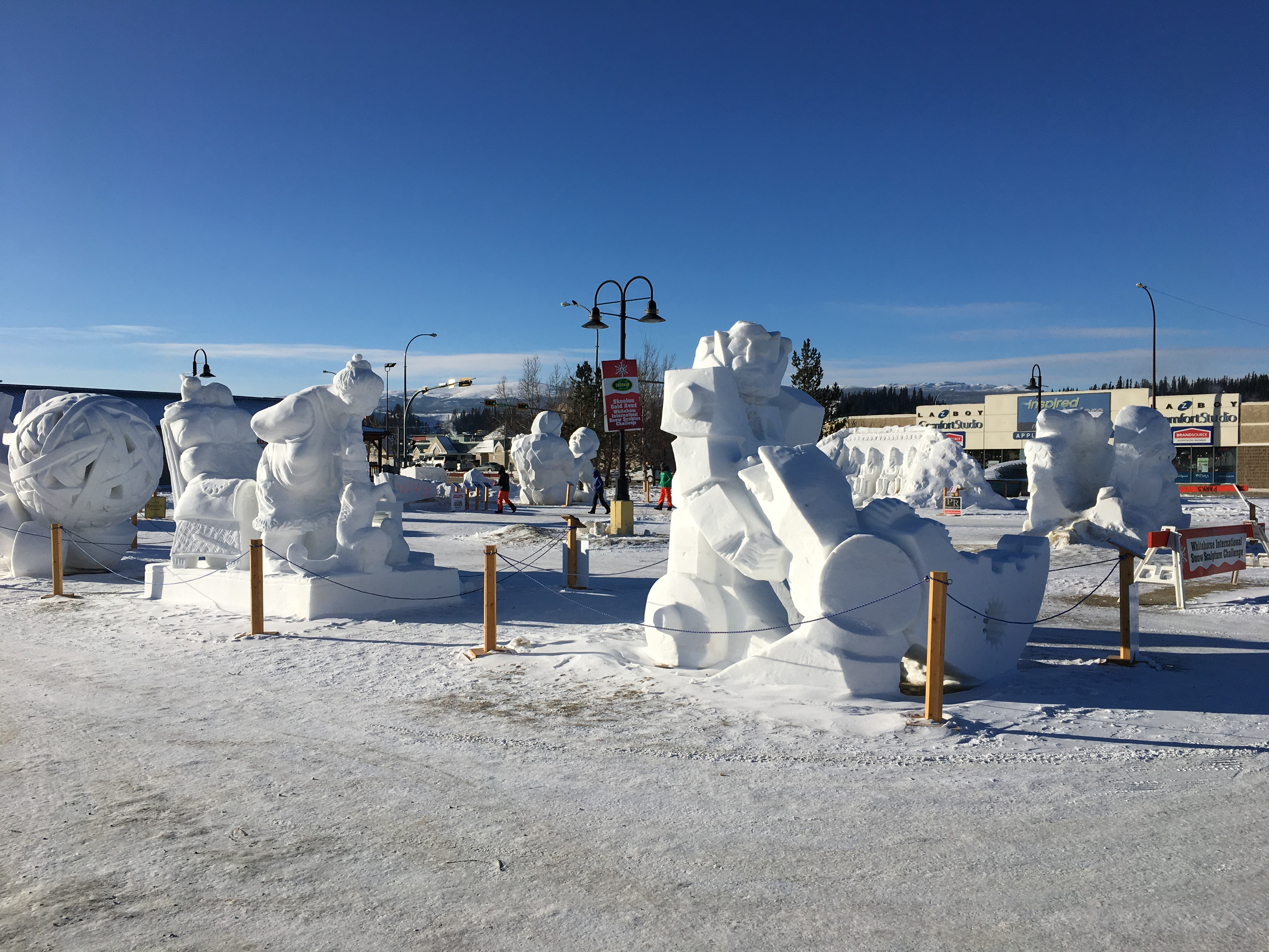 Whitehorse International Snow Sculpture Challenge